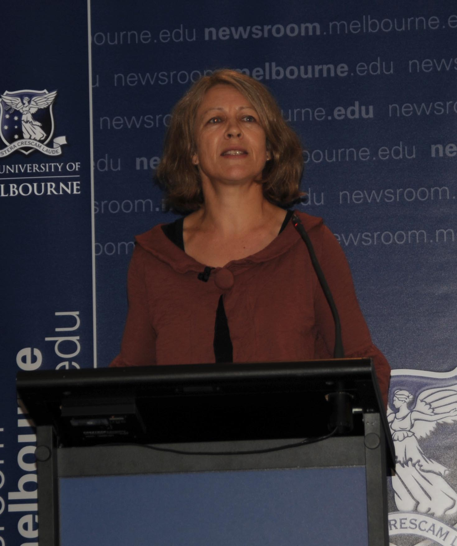 Robyn Eckersley speaking at "The Future of Carbon Trading in Australia" public lecture at the University of Melbourne